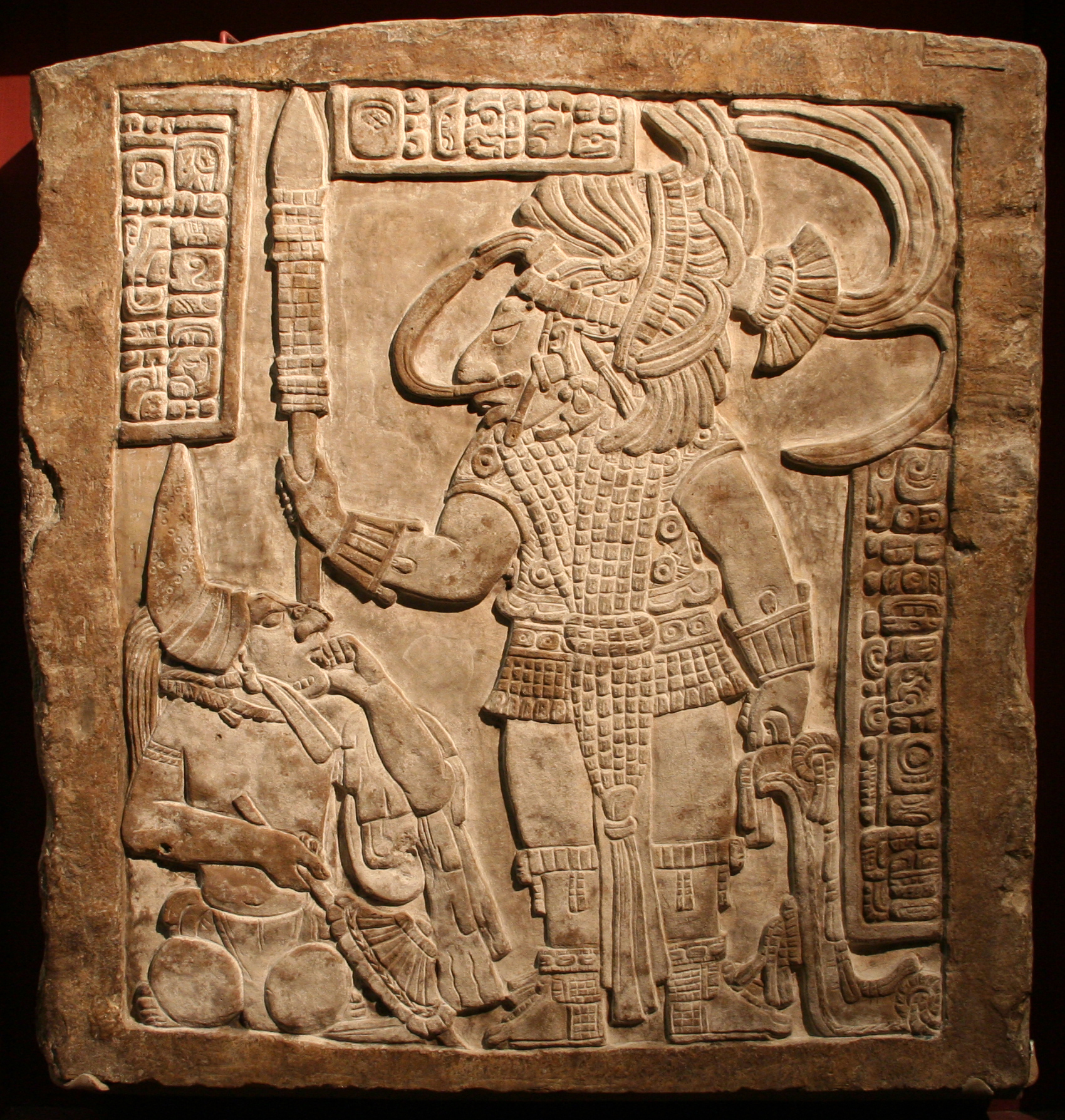 Lintel 16 from Yaxchilan, Chiapas, Mexico. Late Classic (AD 600-900). Now in the British Museum, London.